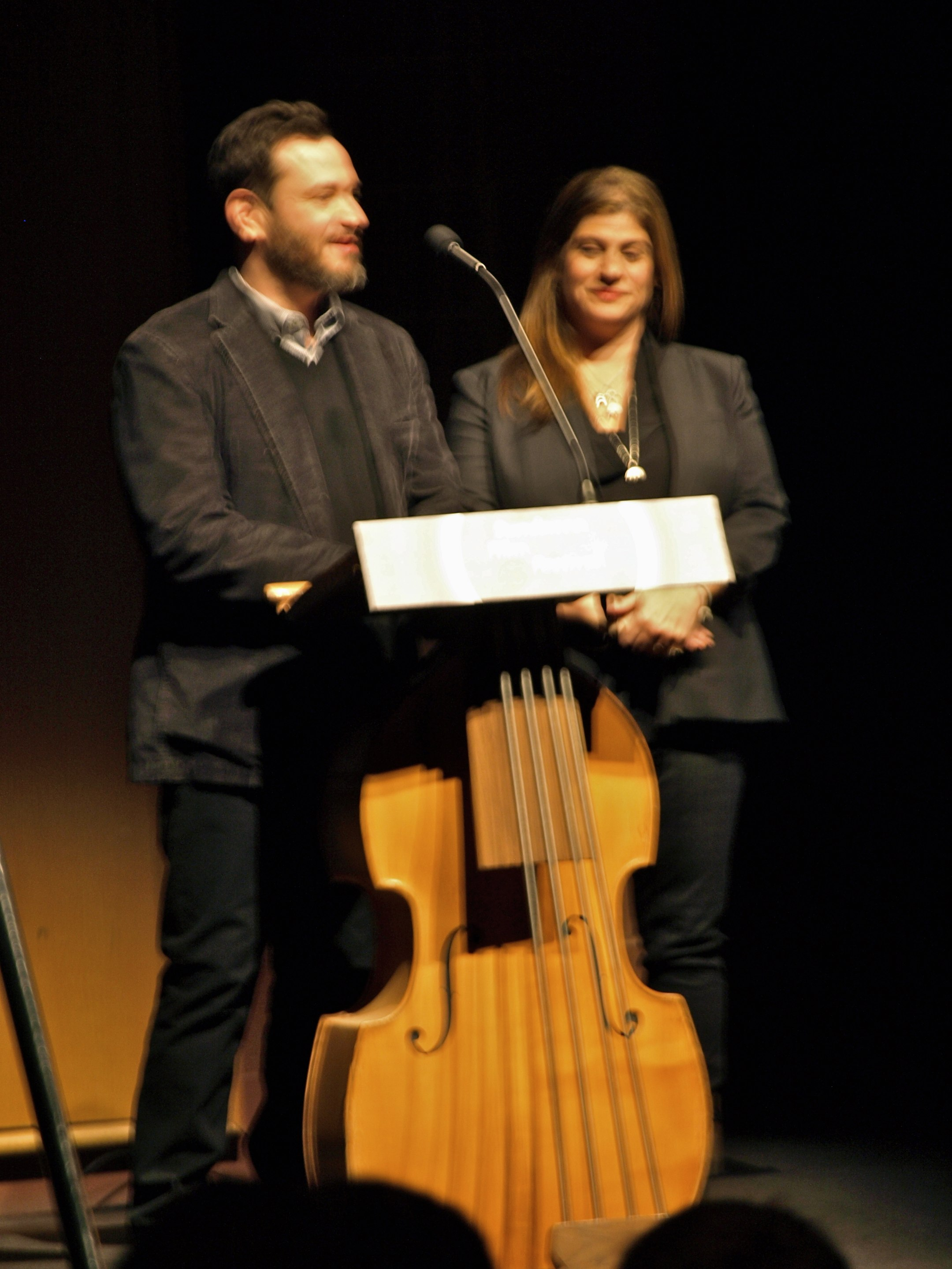 Robert Pulcini and Shari Springer Berman: "10,000 Saints," Sundance 2015